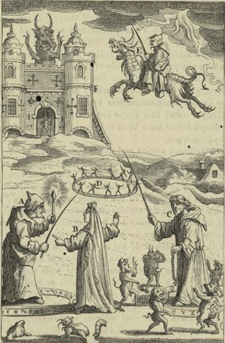 Sorceries. A. A Witch. B. A Spirit raised by the Witch. C. A Friar raising his Imps. D. A Fairy Ring. E. A Witch rideing on the Devill through the Aire. F. An Inchanged Castle.